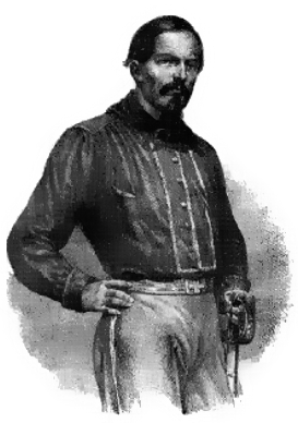 Portrait of Nino Bixio. Bixio was an italian politician and patriot.